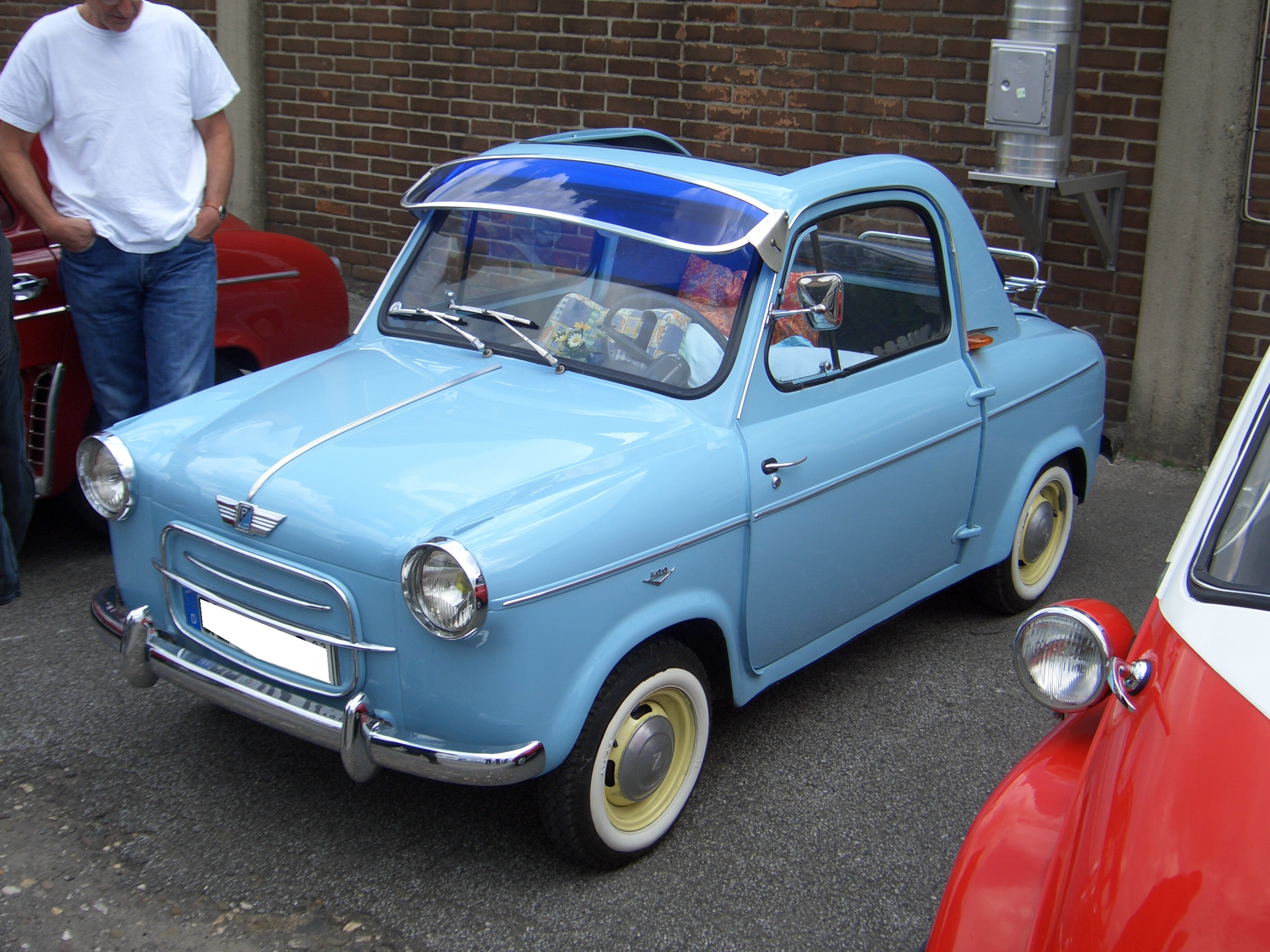 Piaggio Vespa 400, 1957-1961, seen at vintage car meeting in Leverkusen, Germany, August 2008